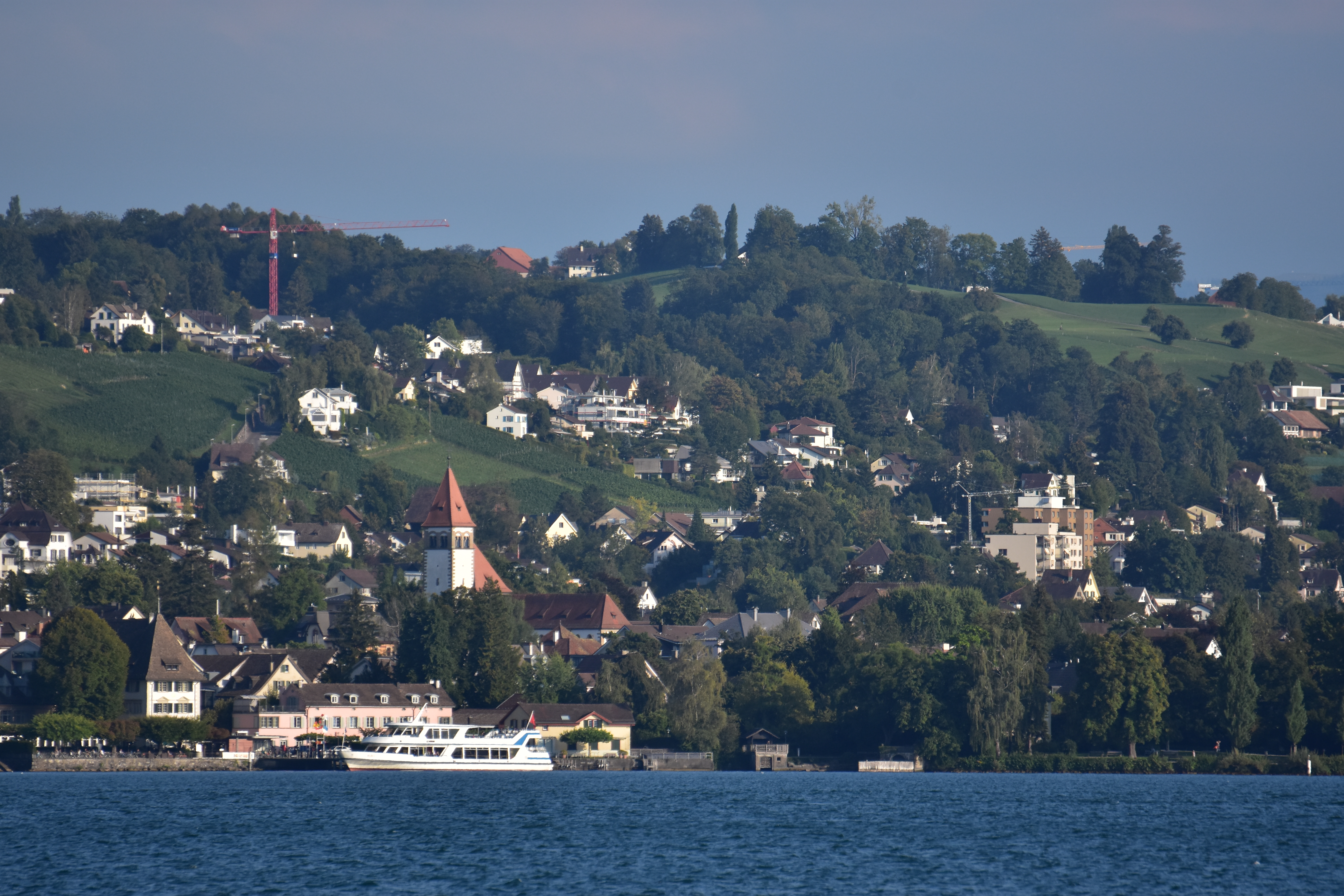 Küsnachter Tobel and the municipality of Küsnacht as seen from Zürichsee-Schiffahrtsgesellschaft (ZSG) ship MS Helvetia on Zürichsee in Switzerland